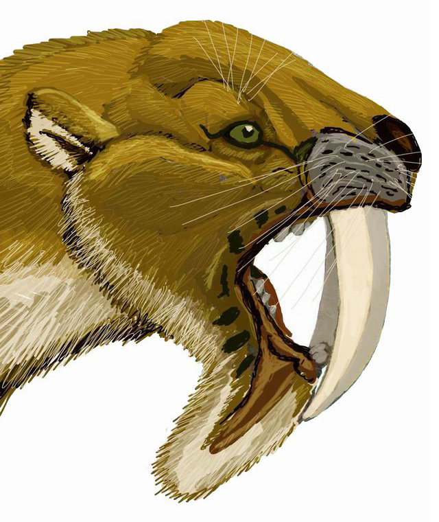 Thylacosmilus.